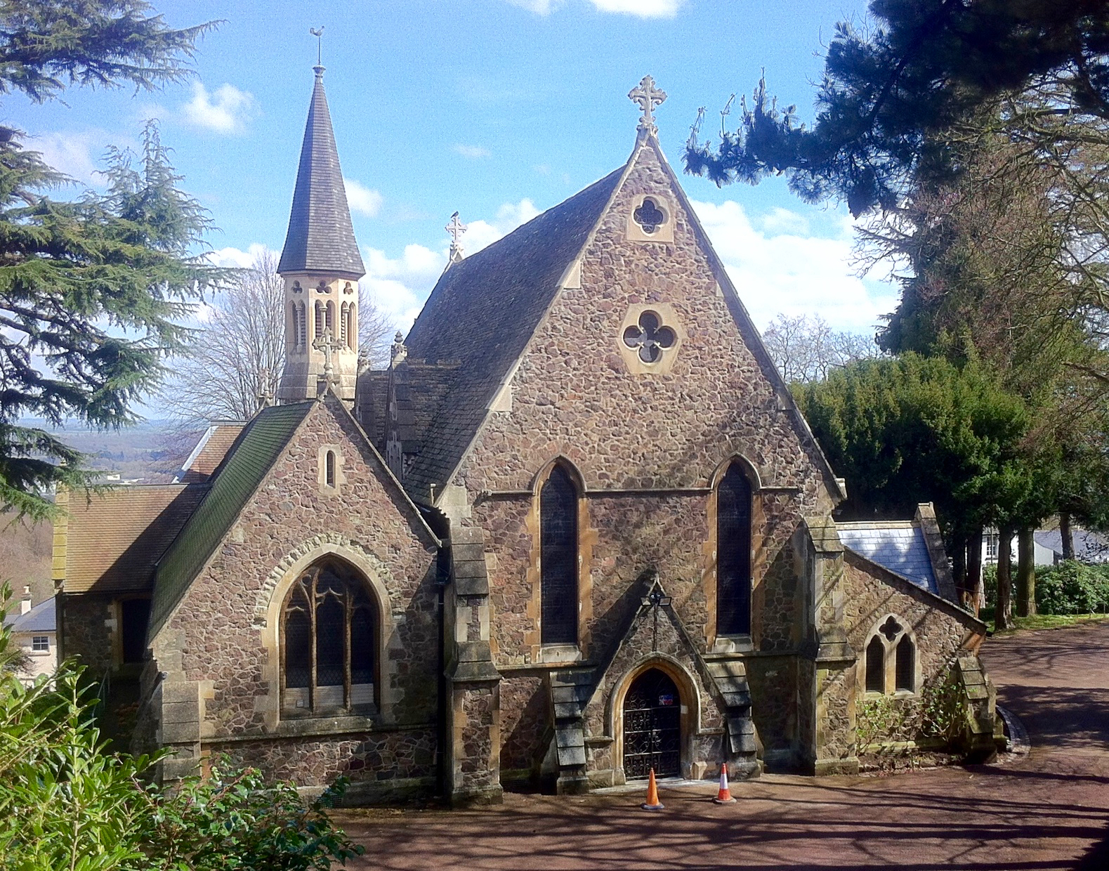 Holy Trinity parish church, Malvern, Worcestershire, seen from the west